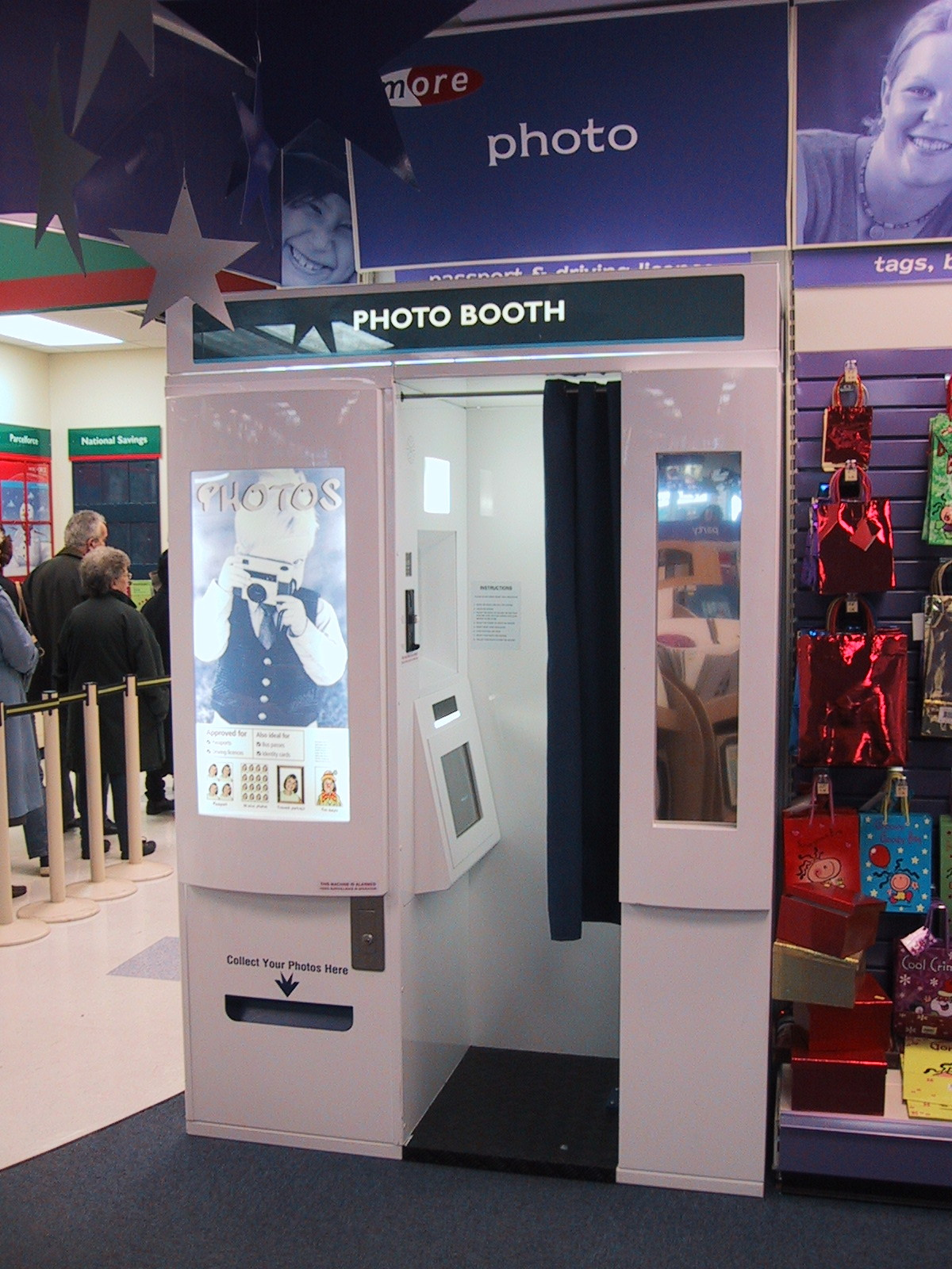 Snap Digital booth in Bicester